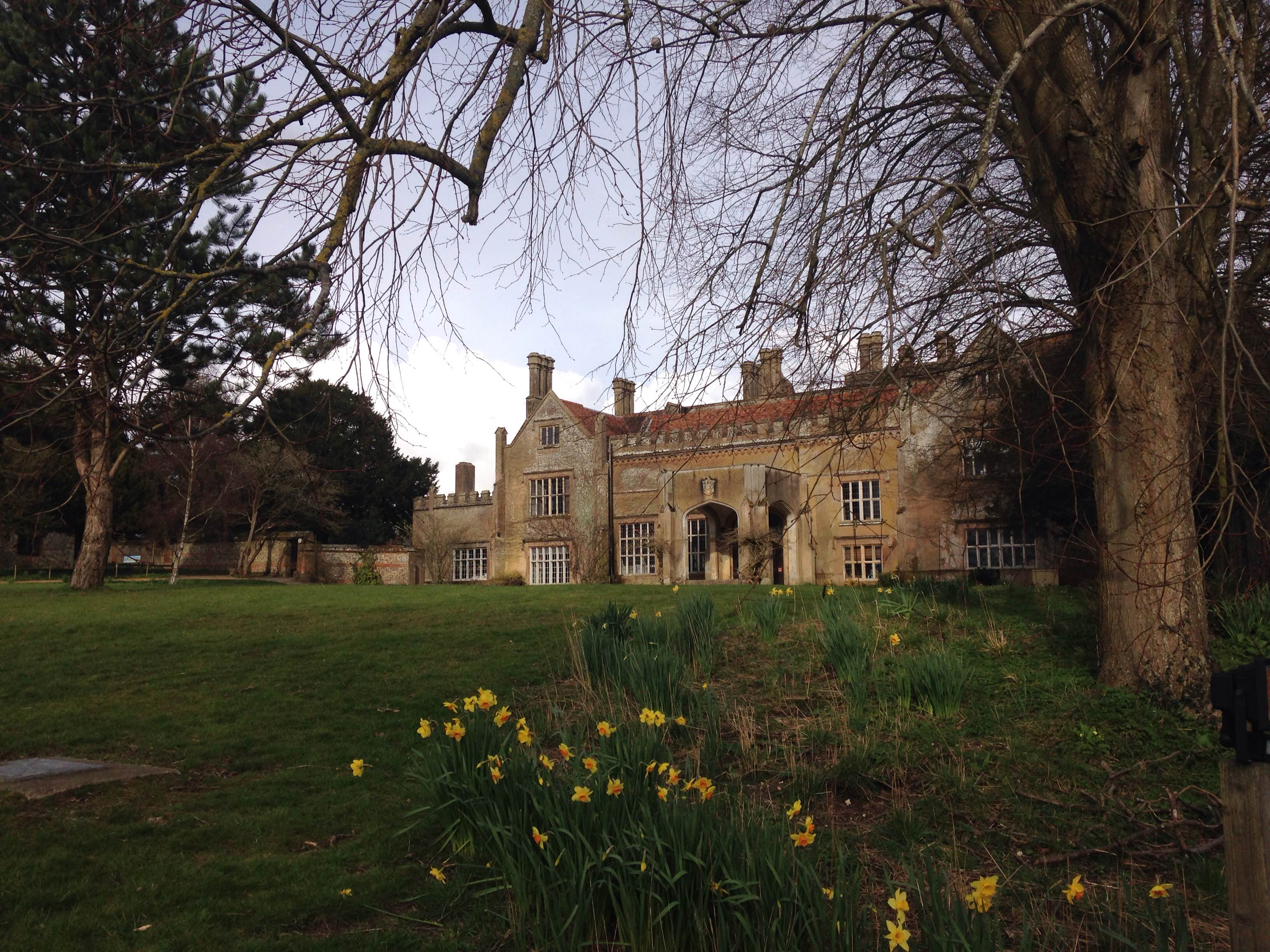 An image of Marwell Hall that I captured on my mobile phone on the 30th of March 2016.